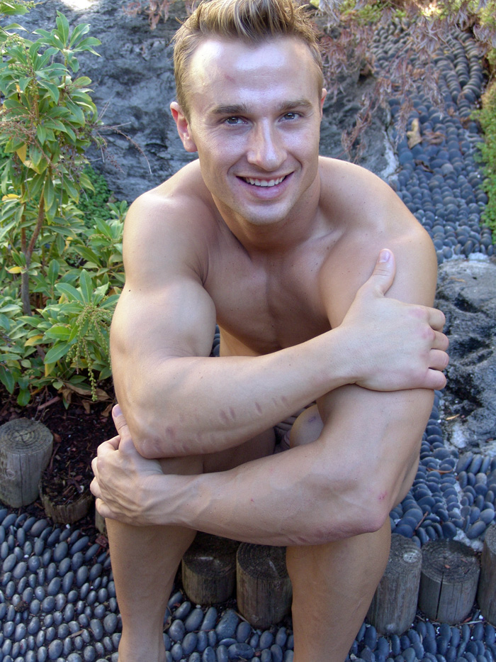 Derrick Davenport during fun photo session in Los Angeles